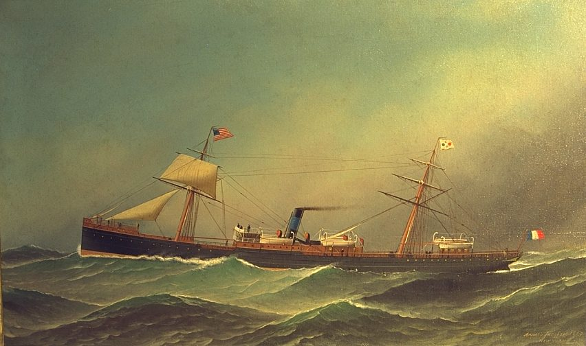 Portrait of the two-masted French Steamer, the SS Cheribon.